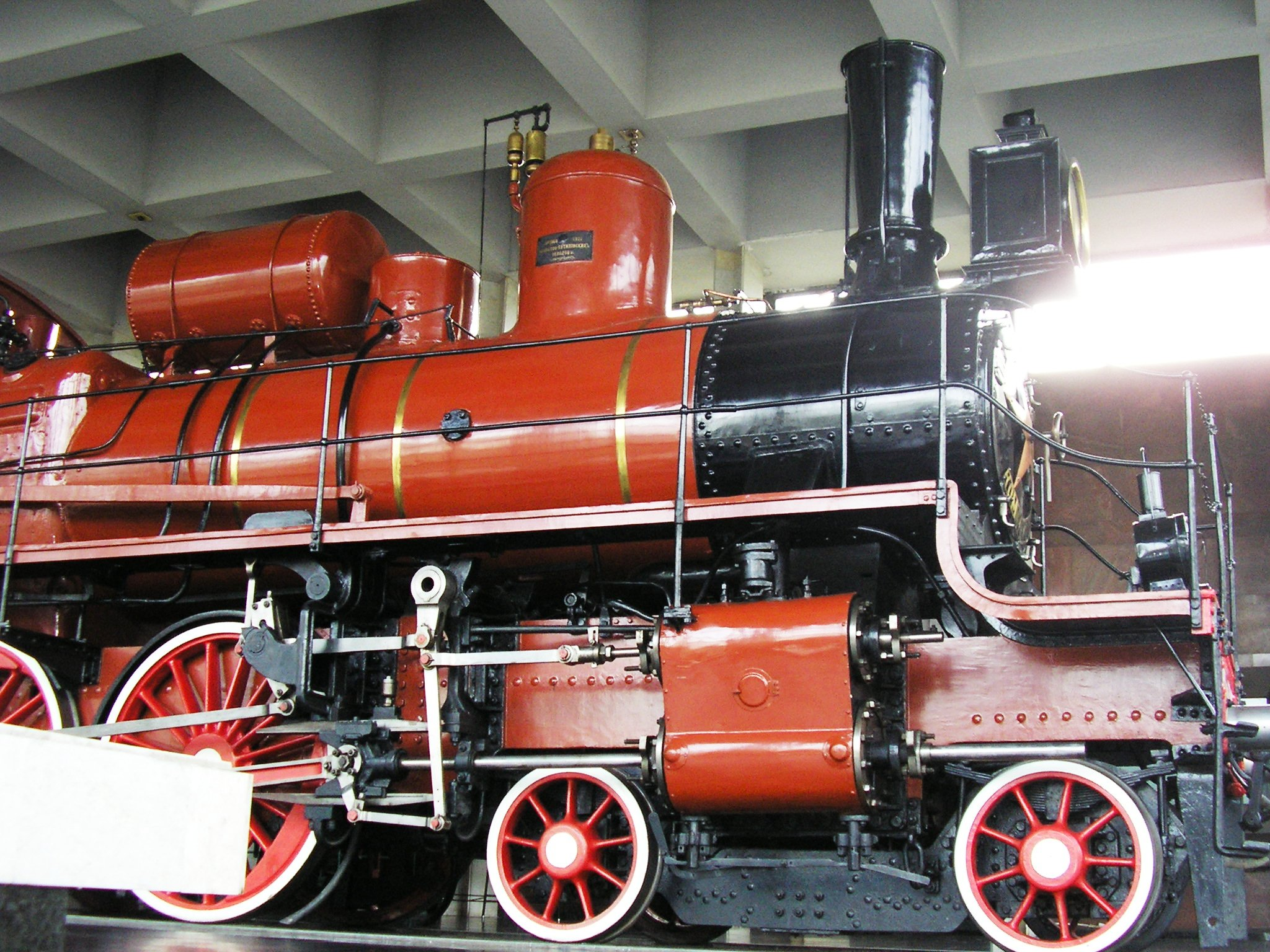 On January 23 of 1924 the body of Vladimir Lenin was carried by funeral train to Paveletsky Rail Terminal (rus. Павелецкий вокзал) in Moscow. Later Museum of Lenin Funeral train was established in the rail terminal building.